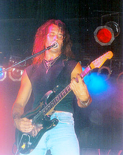 Duck MacDonald playing in his own band "Playground"